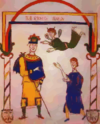 Ратхис на карикатуреKing Ratchis. Miniature from the Codex Matritensis Leges Langobardorum.